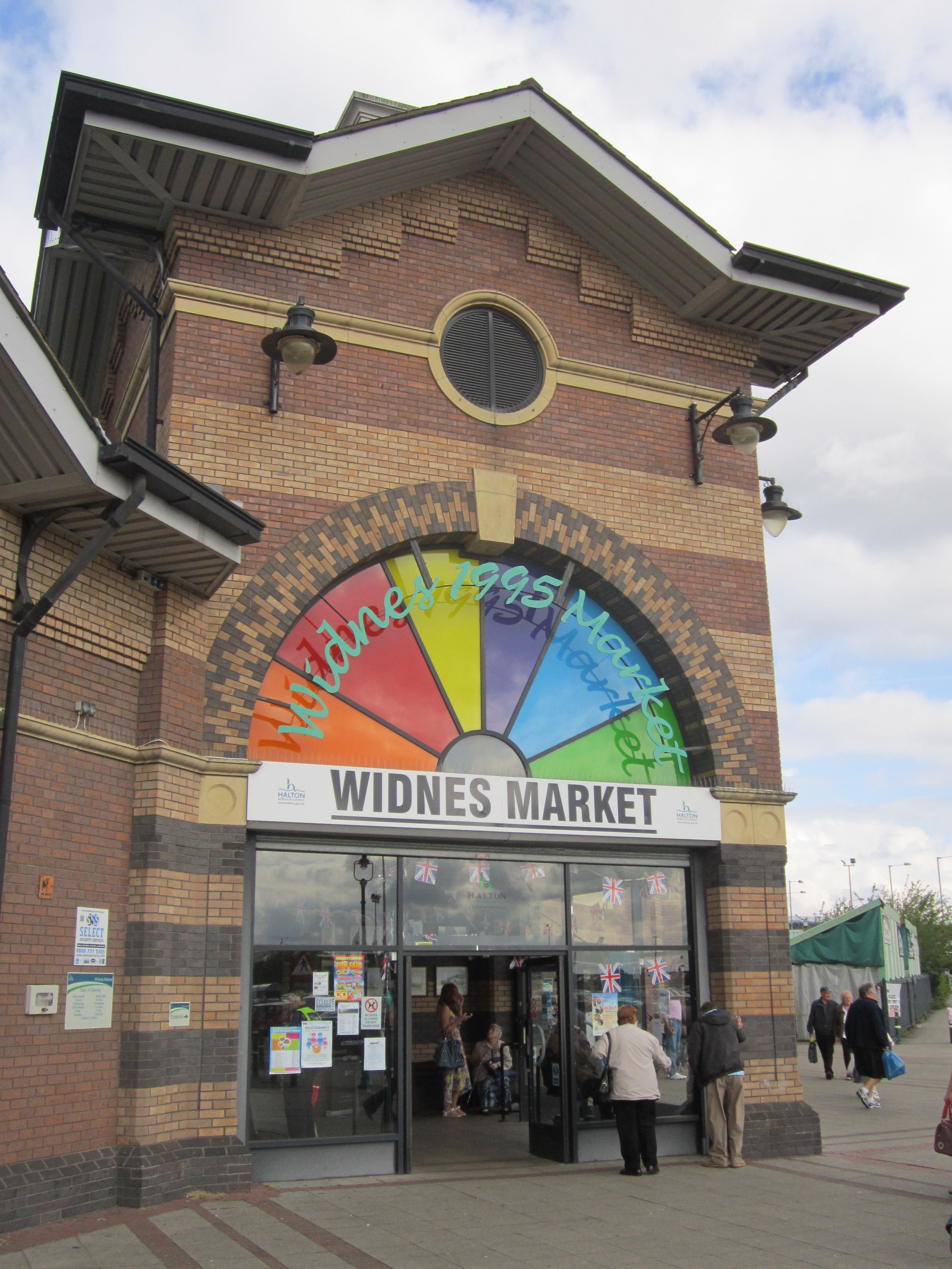 Photo taken at Widnes, Cheshire, England.